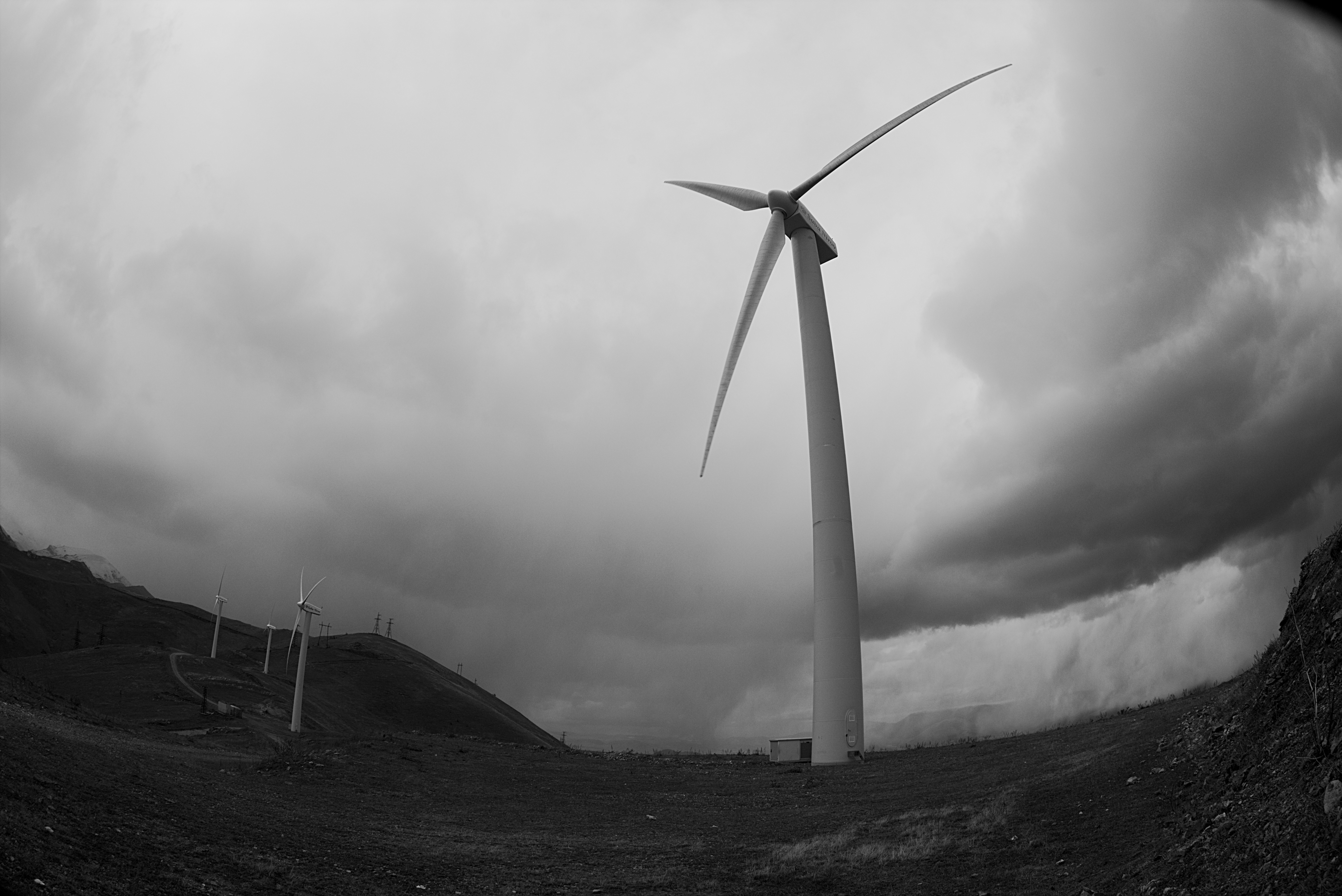 Lori-1 wind farm